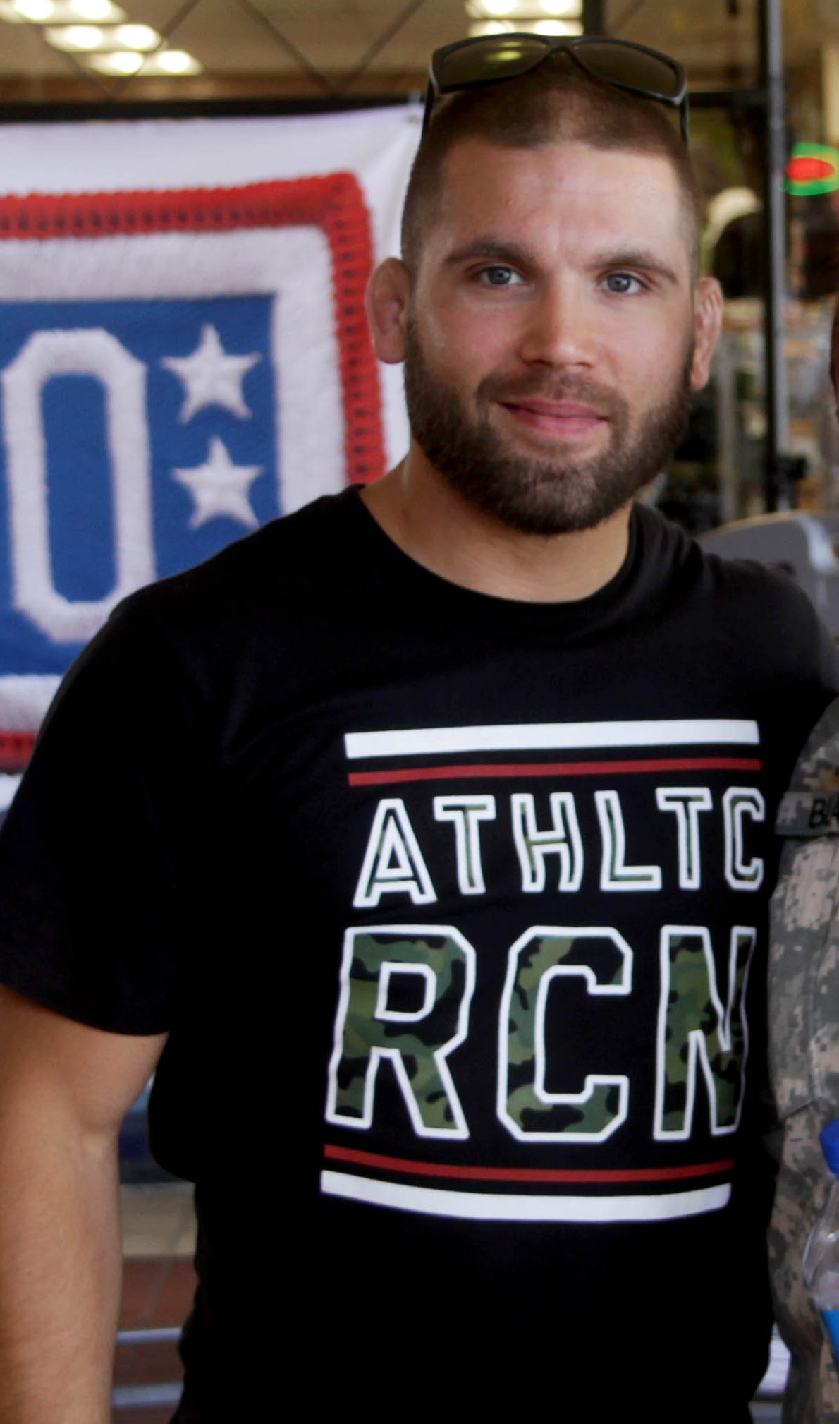 Army Sgt. 1st Class Melissa Black, noncommissioned officer in charge of Joint Task Force Guantanamo's Joint Visitor's Bureau poses with Ultimate Fighting Championship Fighter Jeremy Stephens, nicked named 'Lil Heathen outside in the Navy Exchange Atrium, Saturday. He and fellow Mixed Martial Arts fighter, Tim "The Psycho" Gorman, traveled to GTMO on their first USO tour.